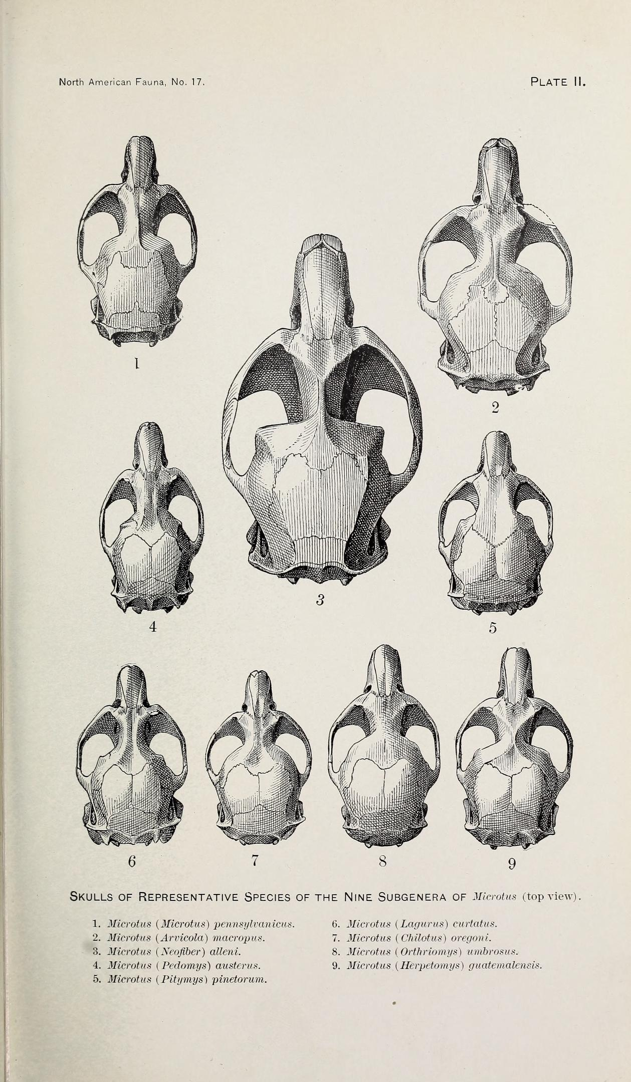 Microtus skulls Bailey 1900 Revision of American voles of the genus Microtus (1900)